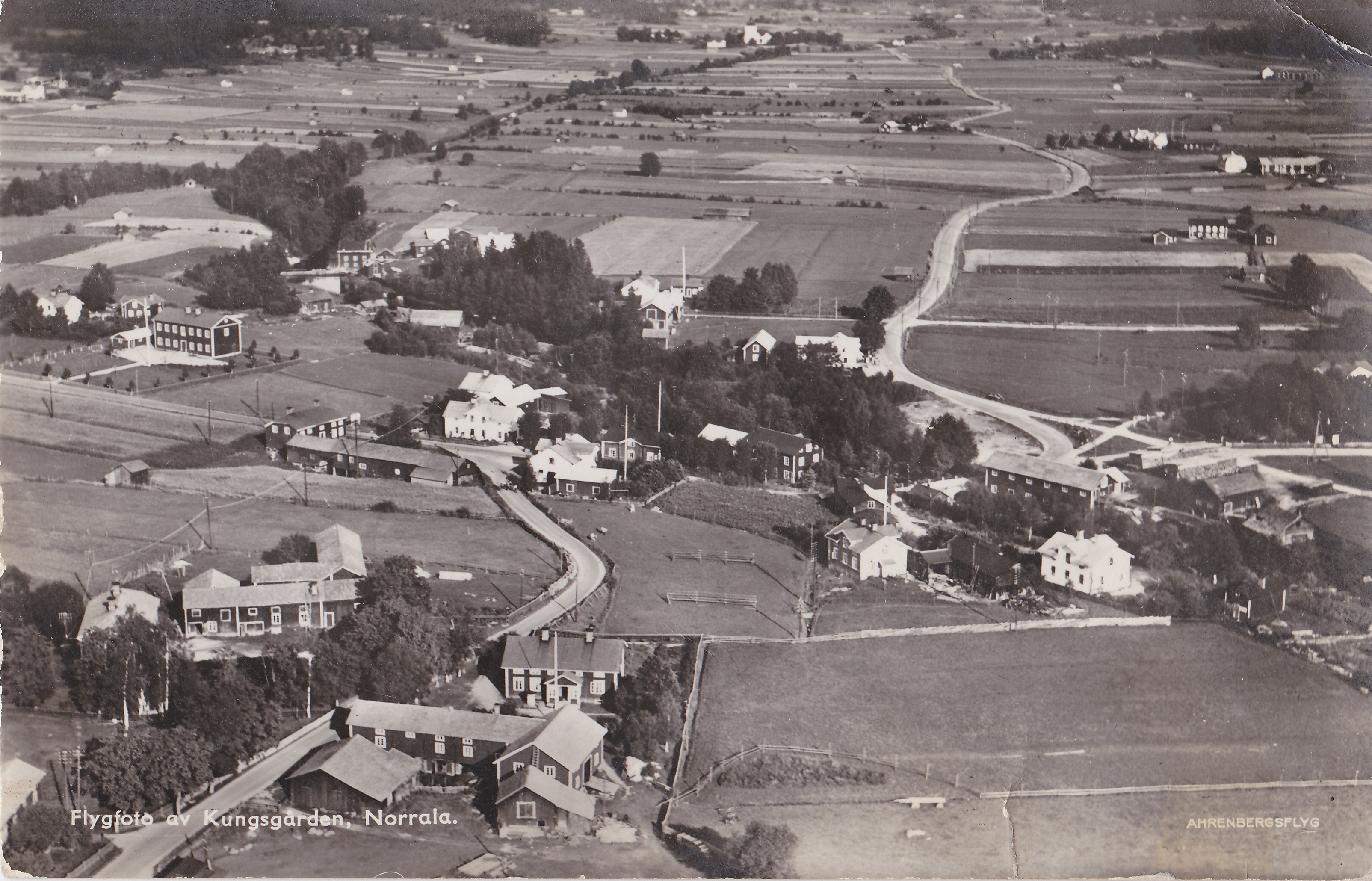 The Norrala valley in the province of Hälsingland, Sweden. Aerial photo by Ahrenbergs flyg.